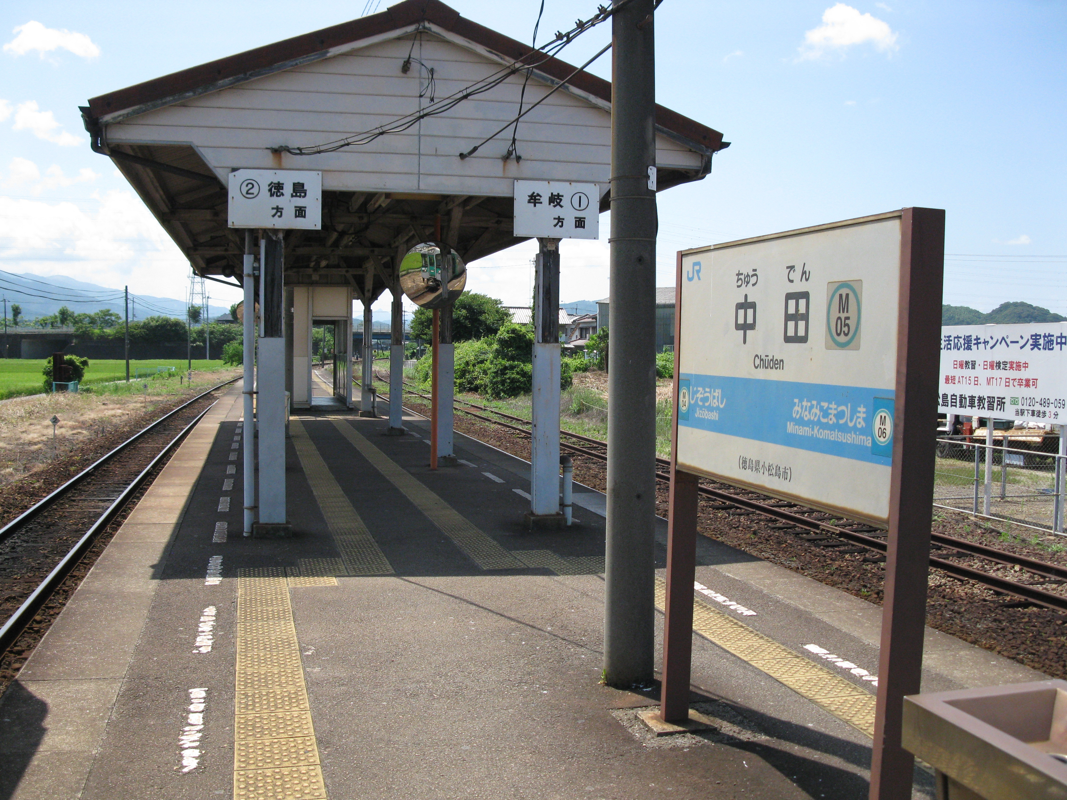 The platform at Chūden Station on the Shikoku Railway(JR Shikoku) Mugi Line in Komatsushima city, Tokushima prefecture, Japan